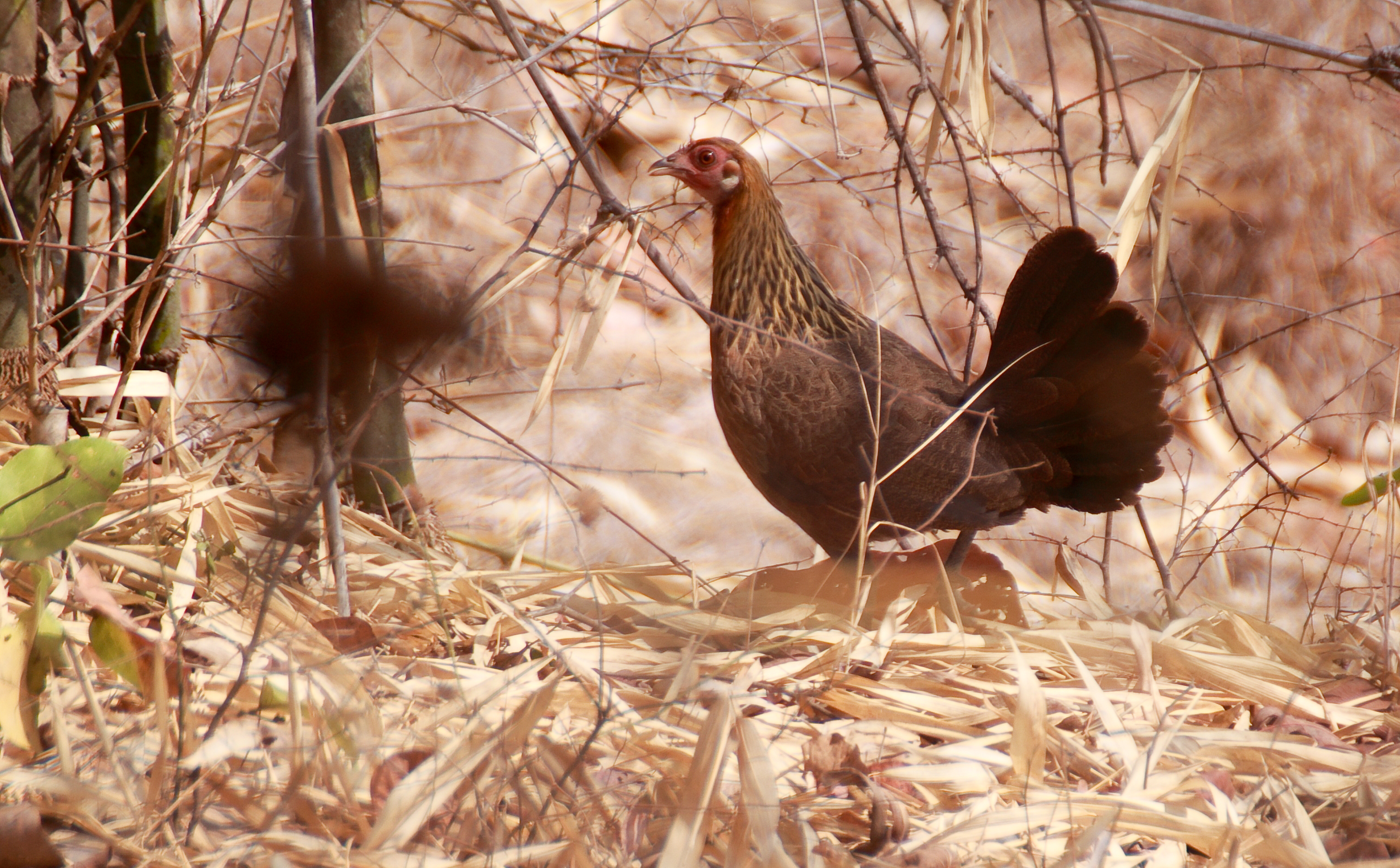 The Red Junglefowl (Gallus gallus) is a tropical member of the Pheasant family, and is often believed to be a direct ancestor of the domestic chicken.